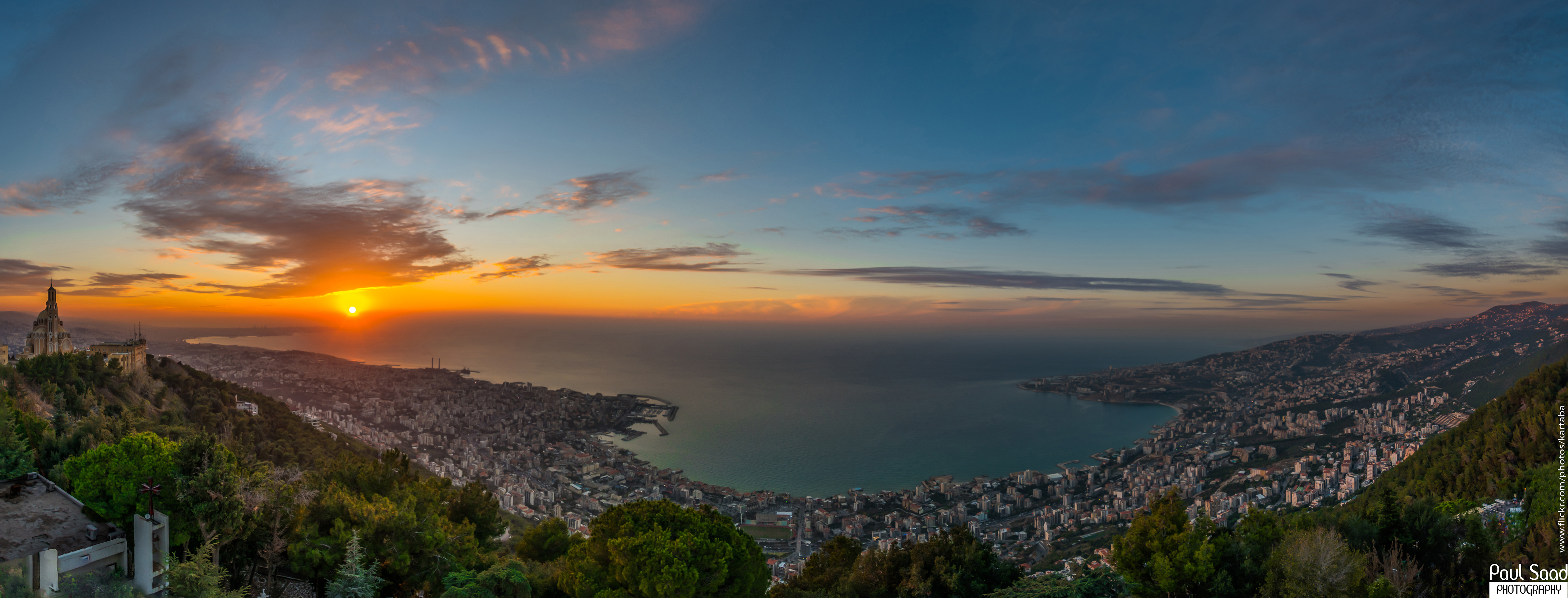 Jounieh From Harissa, Lebanon